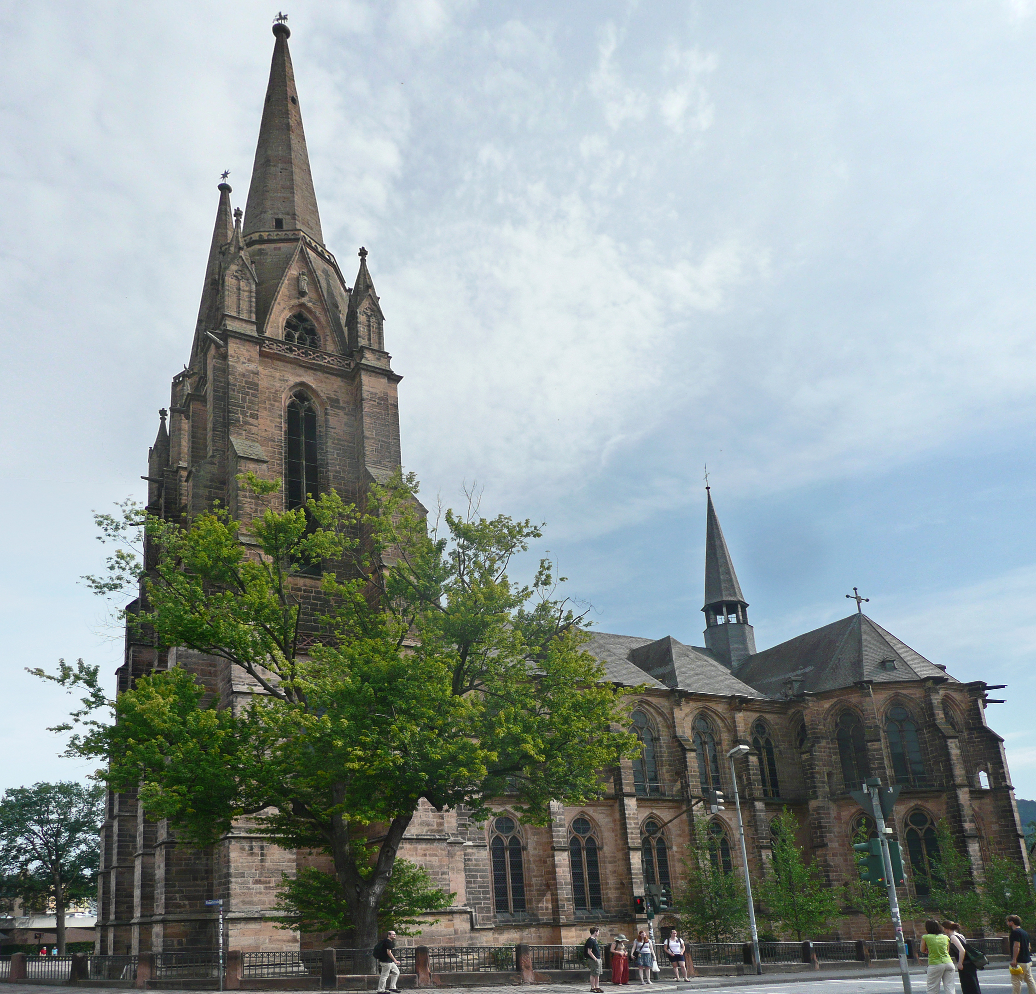 St. Elisabeth's Church in Marburg from Southwest.